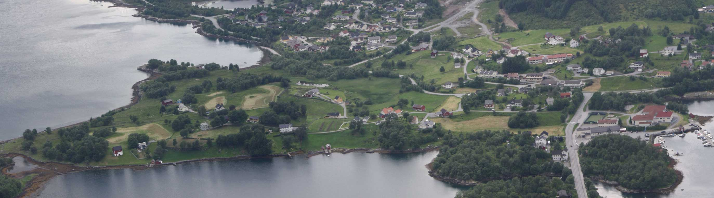 The neighbourhood of Sundgot, seen from the peak Hasundhornet just outside Ulsteinvik city